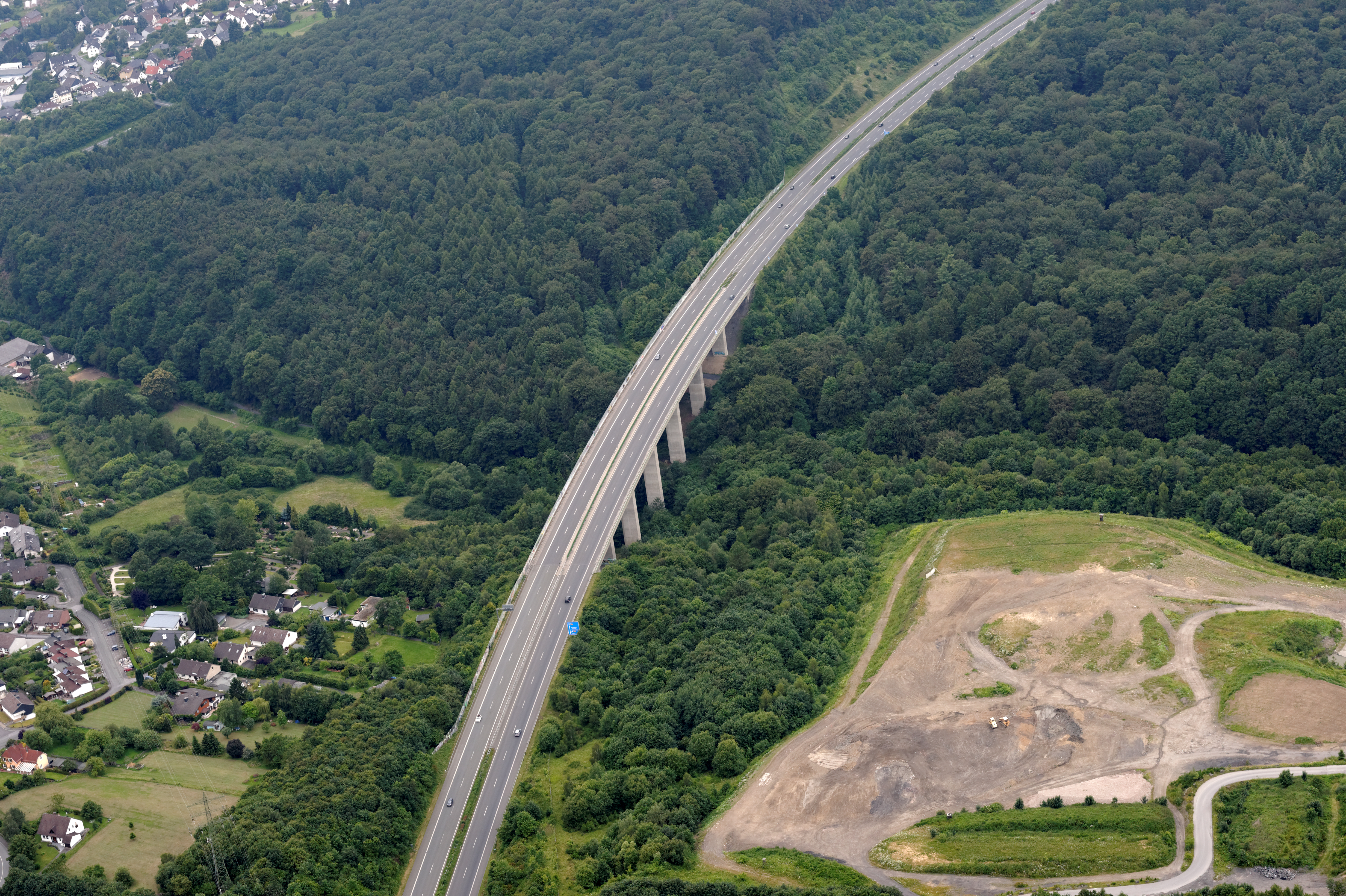 A46 bei Arnsberg mit Talbrücke Berbke, Rechts ehemalige Bauschuttdeponie (Fotoflug Sauerland Nord) The making of this document was supported by the Community-Budget of Wikimedia Germany.